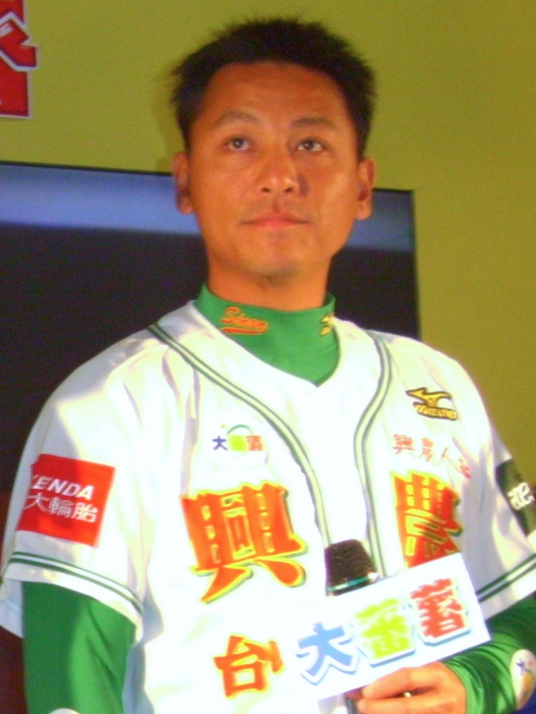 2007 Taipei Game Show: CPBL Sinon Bulls pitcher Chung-nan Tsai participated special events at Game Station Co., Ltd. booth.